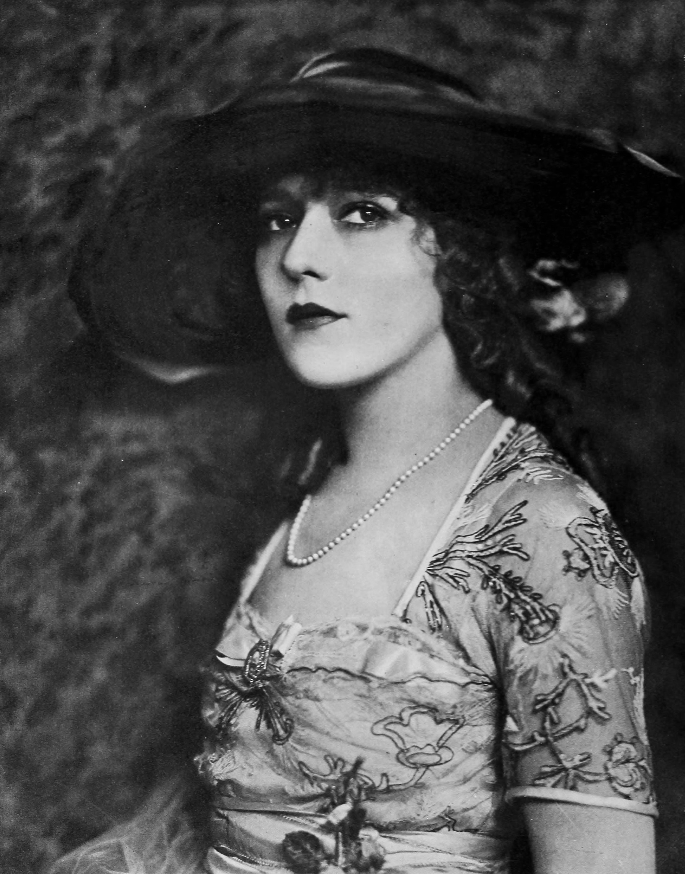 Portrait of Mary Pickford